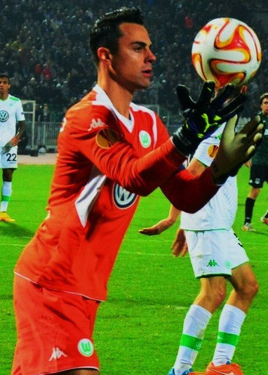 Diego Benaglio